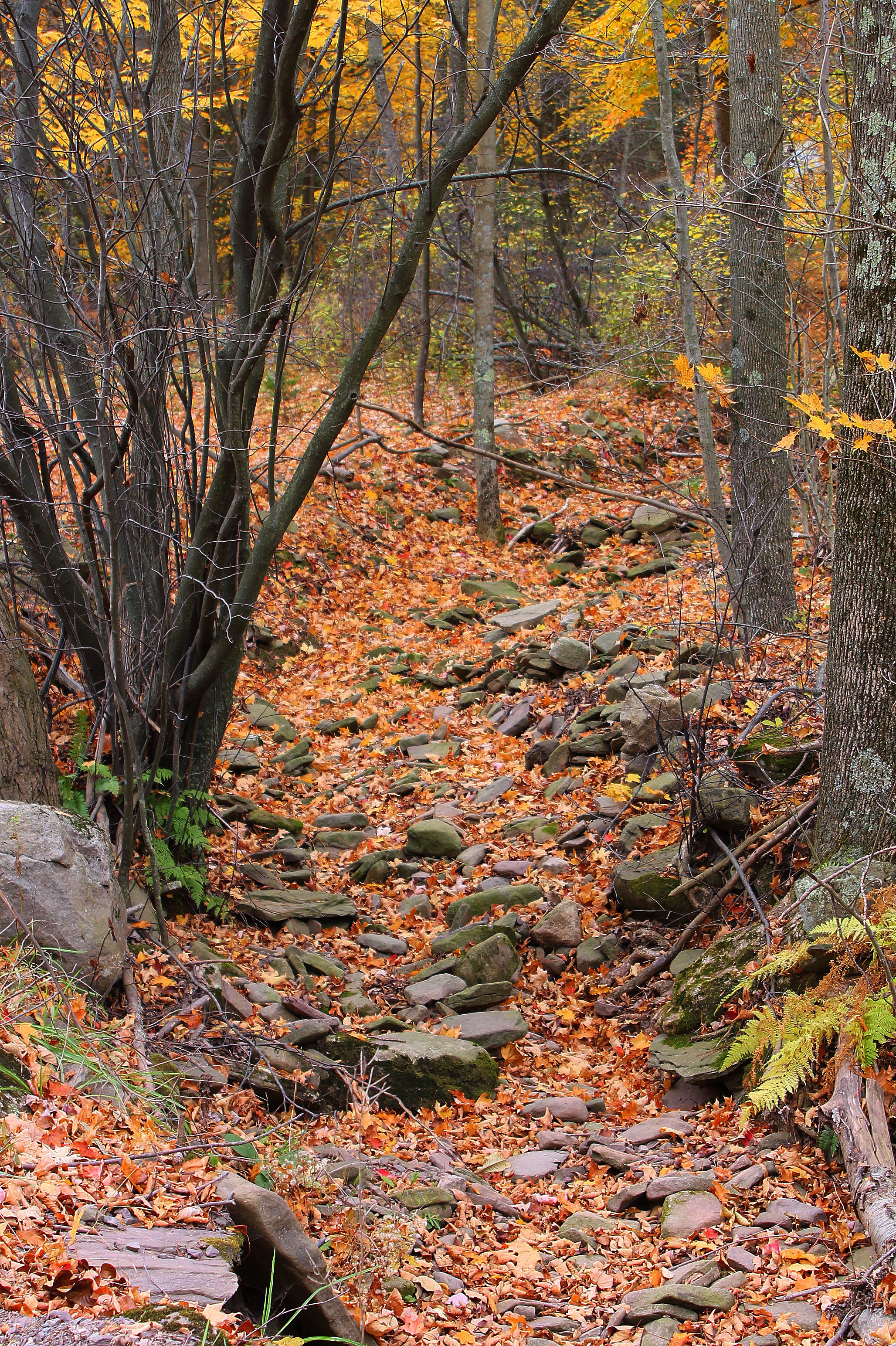 Sorber Run looking upstream in its upper reaches during low flow conditions